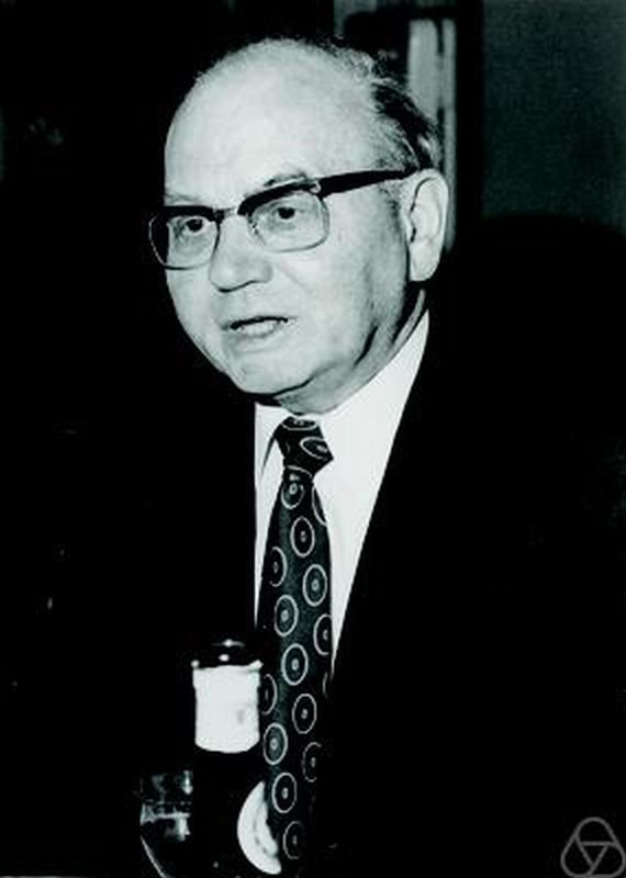 Bruno Schoeneberg, 1973